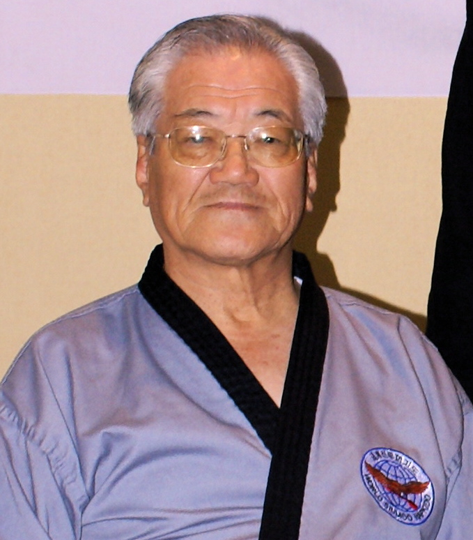 Myself(cropped out) with founder of Hapkido and Sin moo Hapkido, Ji Han-Jae, at the first international Sin Moo Hapkido conference.